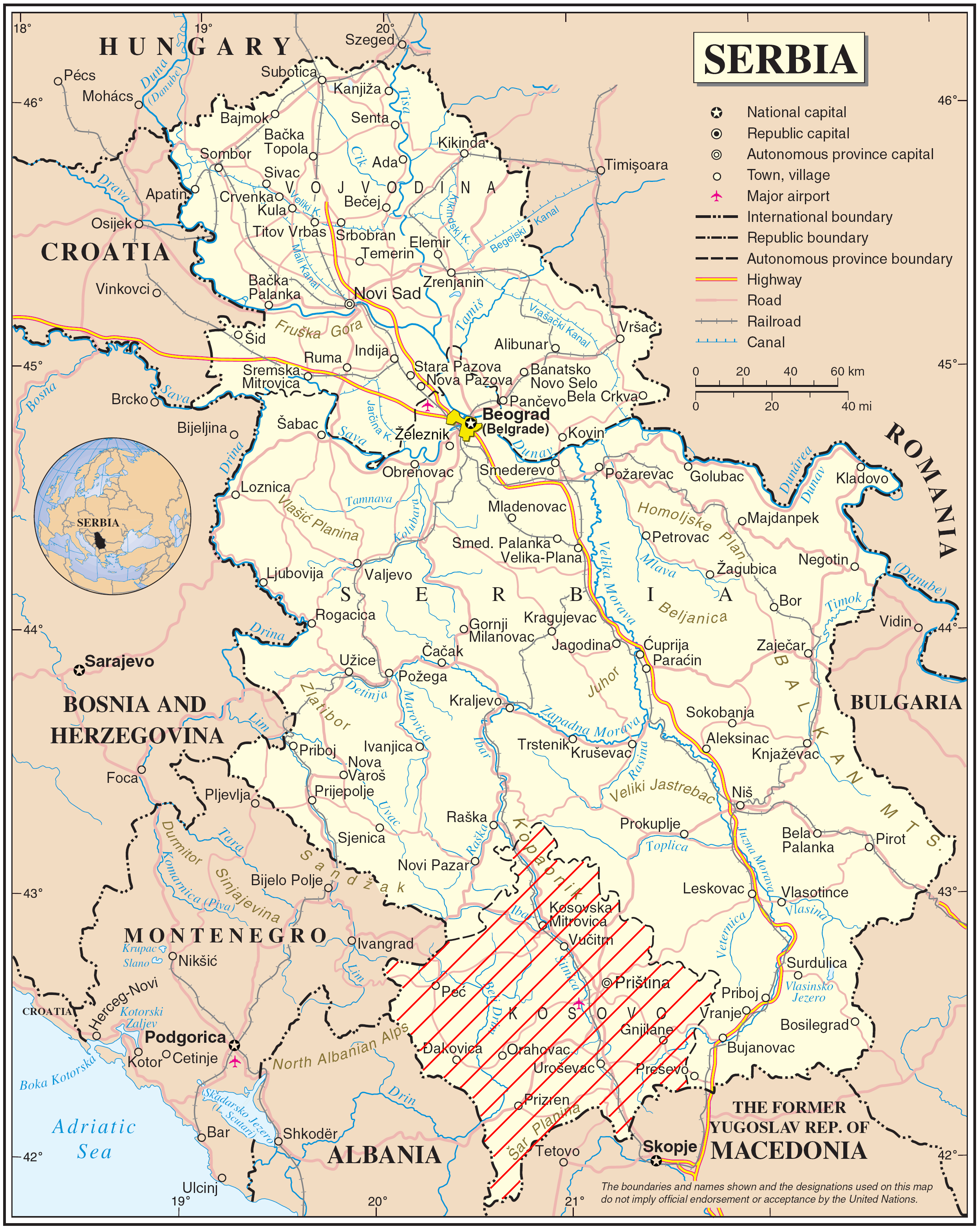 Map of Serbia with disputed Kosovo Status